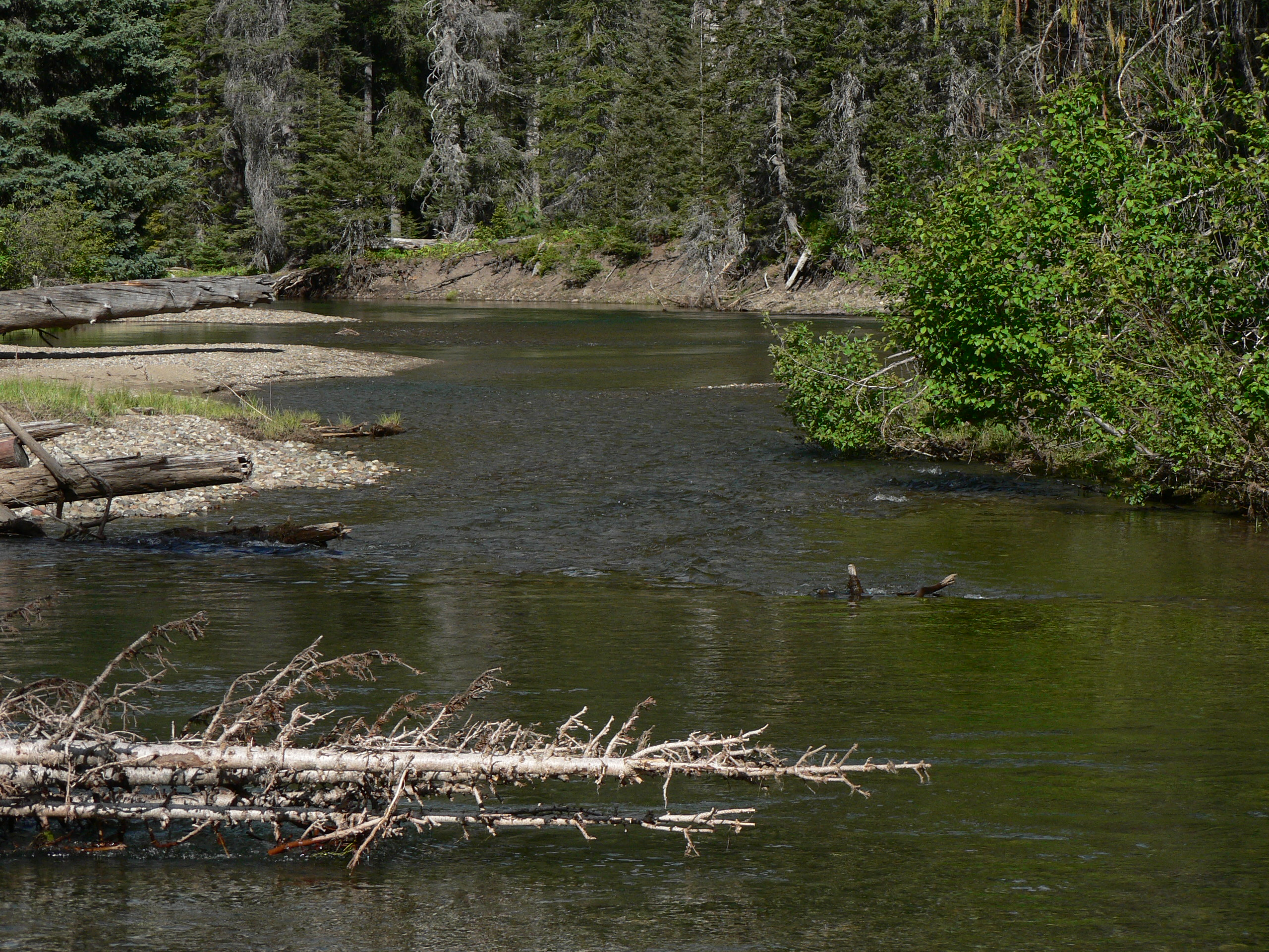 American River (Washington) and coarse woody debris Location Datum: WGS84 Location description: Cougar Lake Trail #958A William O. Douglas Wilderness Location elevation: 1022 meter (3352 ft) View direction: East Camera: Panasonic DMC-FZ5 Exposure Time: 1/640 F Number: f/4.5 Focal Length: 20.7 Focal Length In 35mm Film: 124 ISO Speed Rating: 80